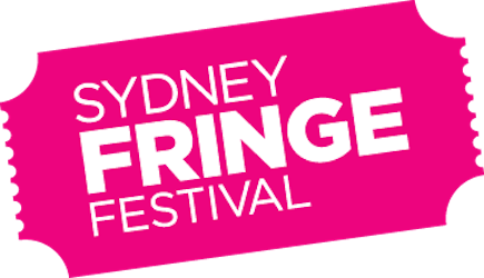 The logo for The Sydney Fringe Festival